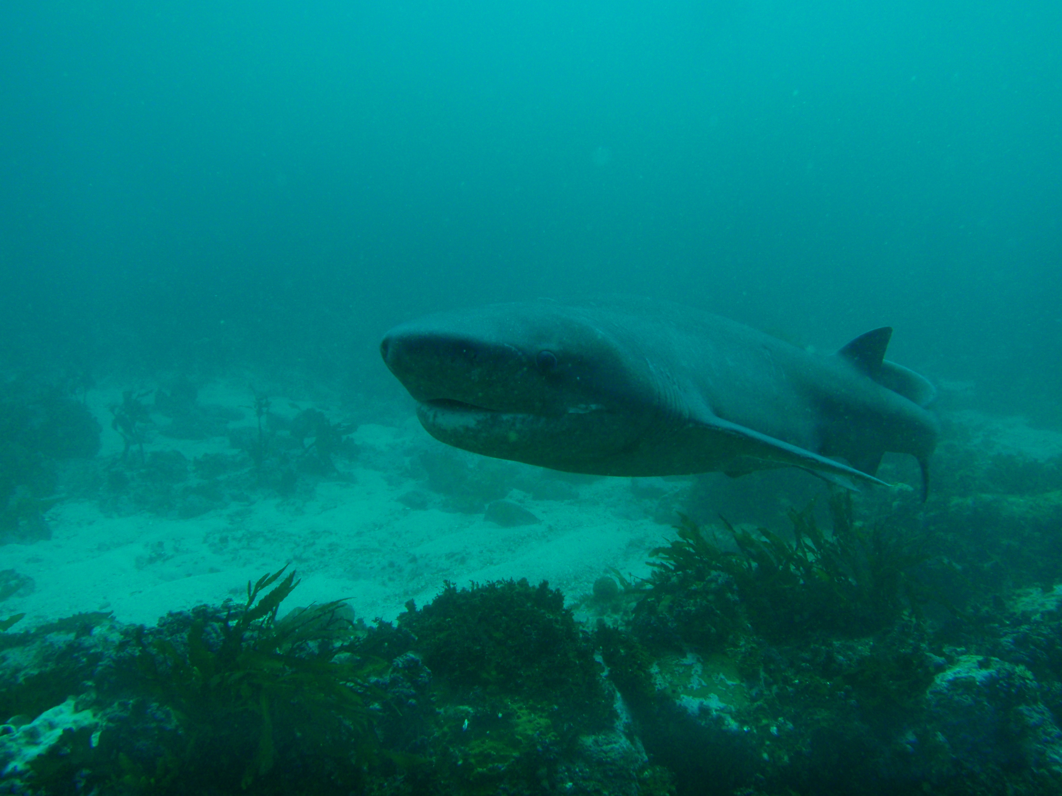 Castle Rocks, Cape Peninsula.